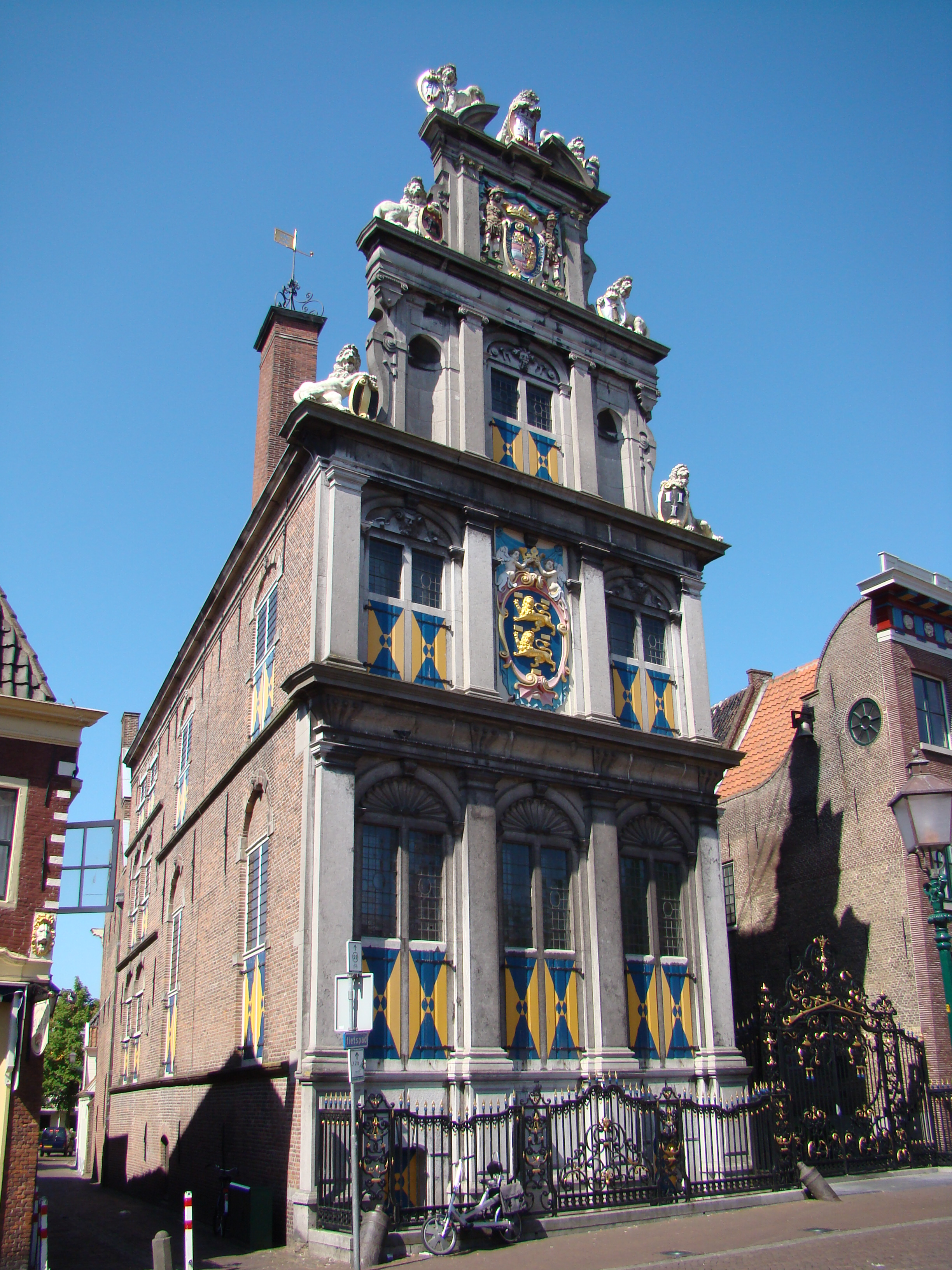 Buildings in Hoorn (Netherlands)